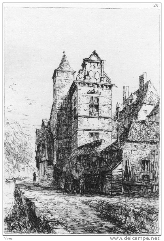 Huy beside the water. Original etching representing the Batta House in Huy, ancient refuge for the Val-Saint-Lambert abbey.